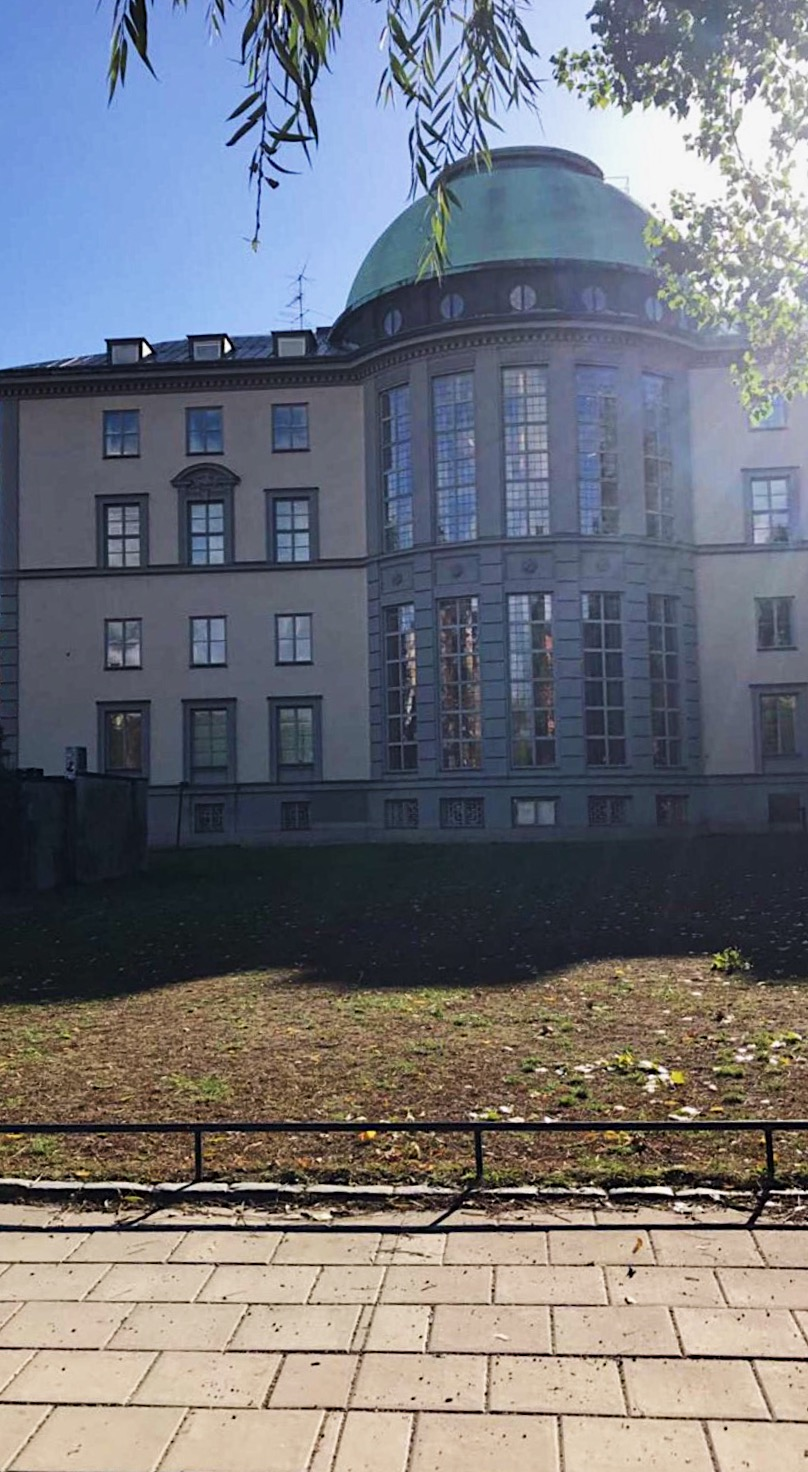 The Stockholm School of Economics is a University located in central Stockholm. This picture of the main building is taken from a nearby park in late November